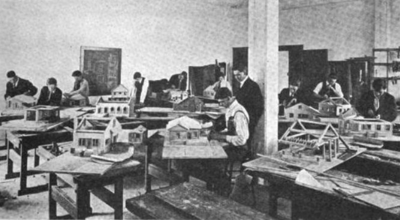 Tiny Town in construction by high school students